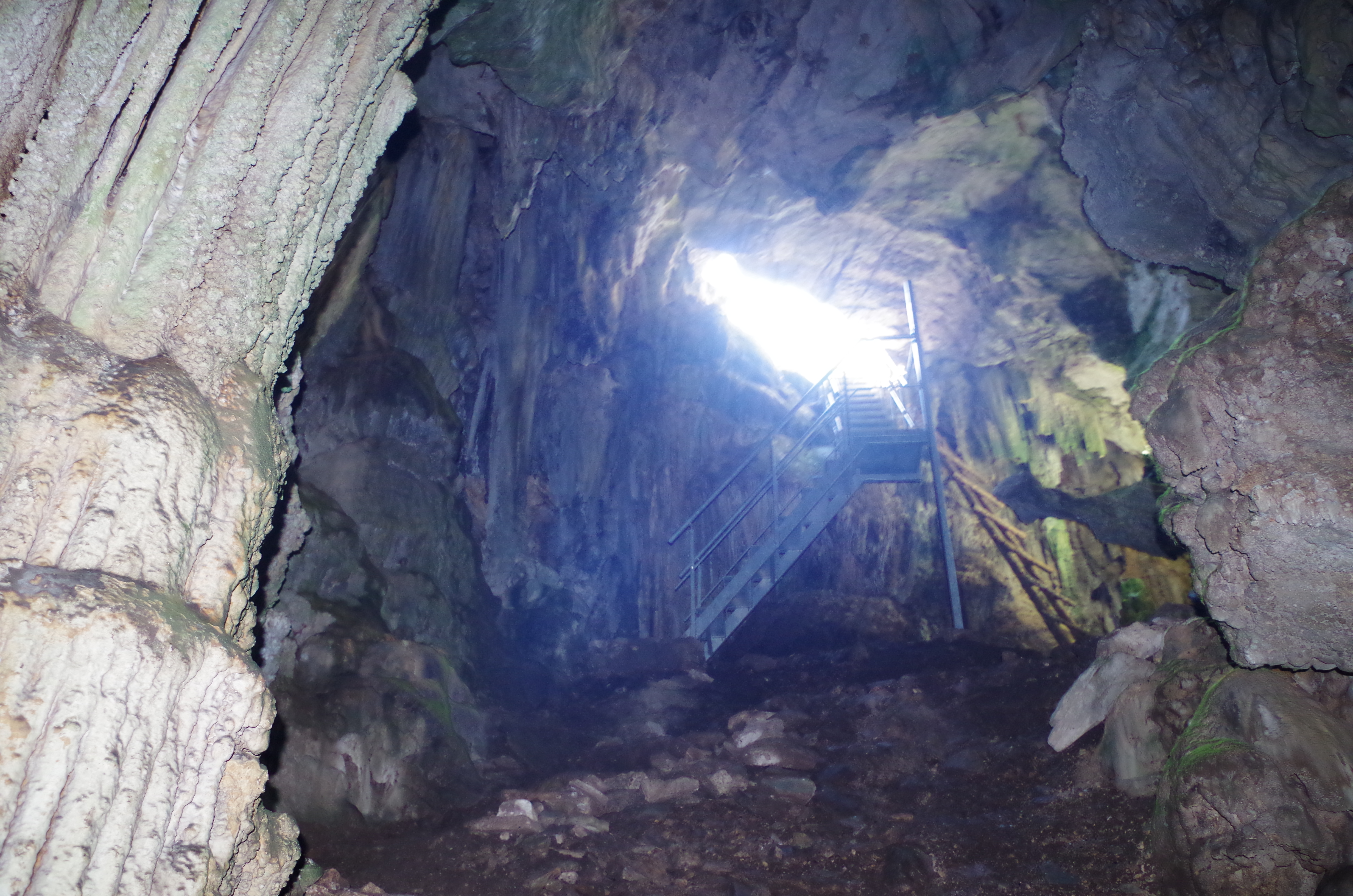 Gulabarnica cave, near village of Belica in Porece region, Macedonia